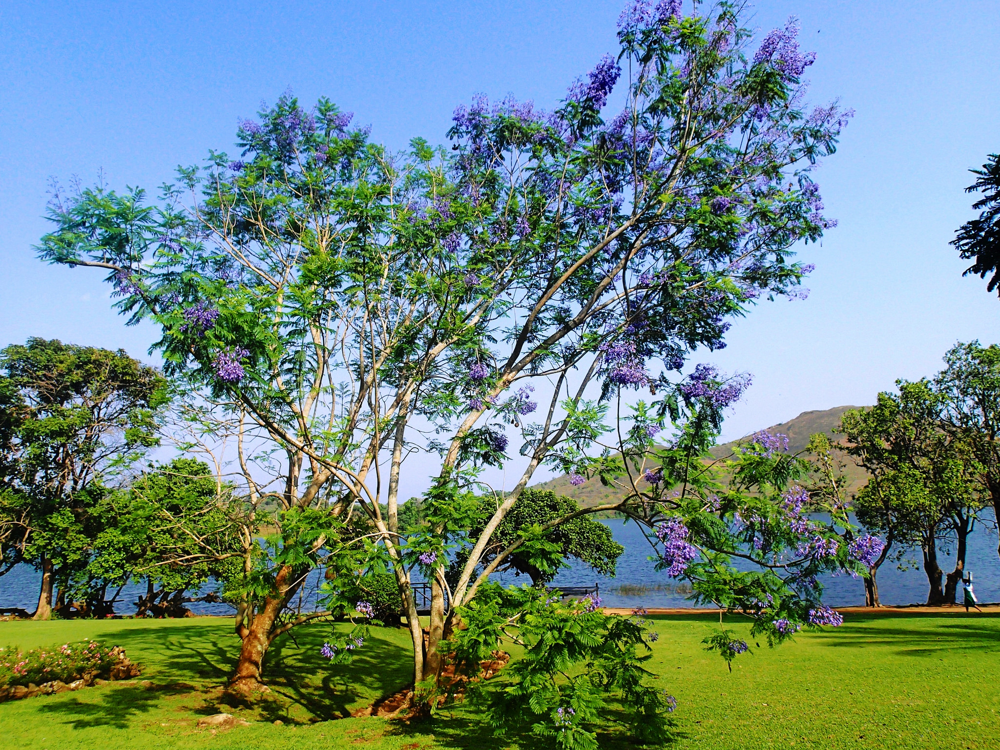 Jaracunda tree, Domaine de Petpenoun, Foumbot, Cameroon